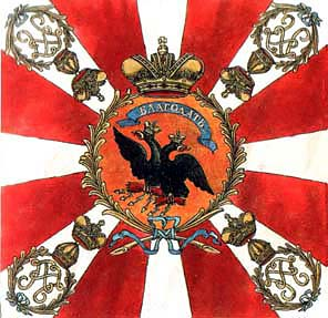 Ordinance flag of the Life Guard Regiment and St. Petersburg Inspection 1800-1813